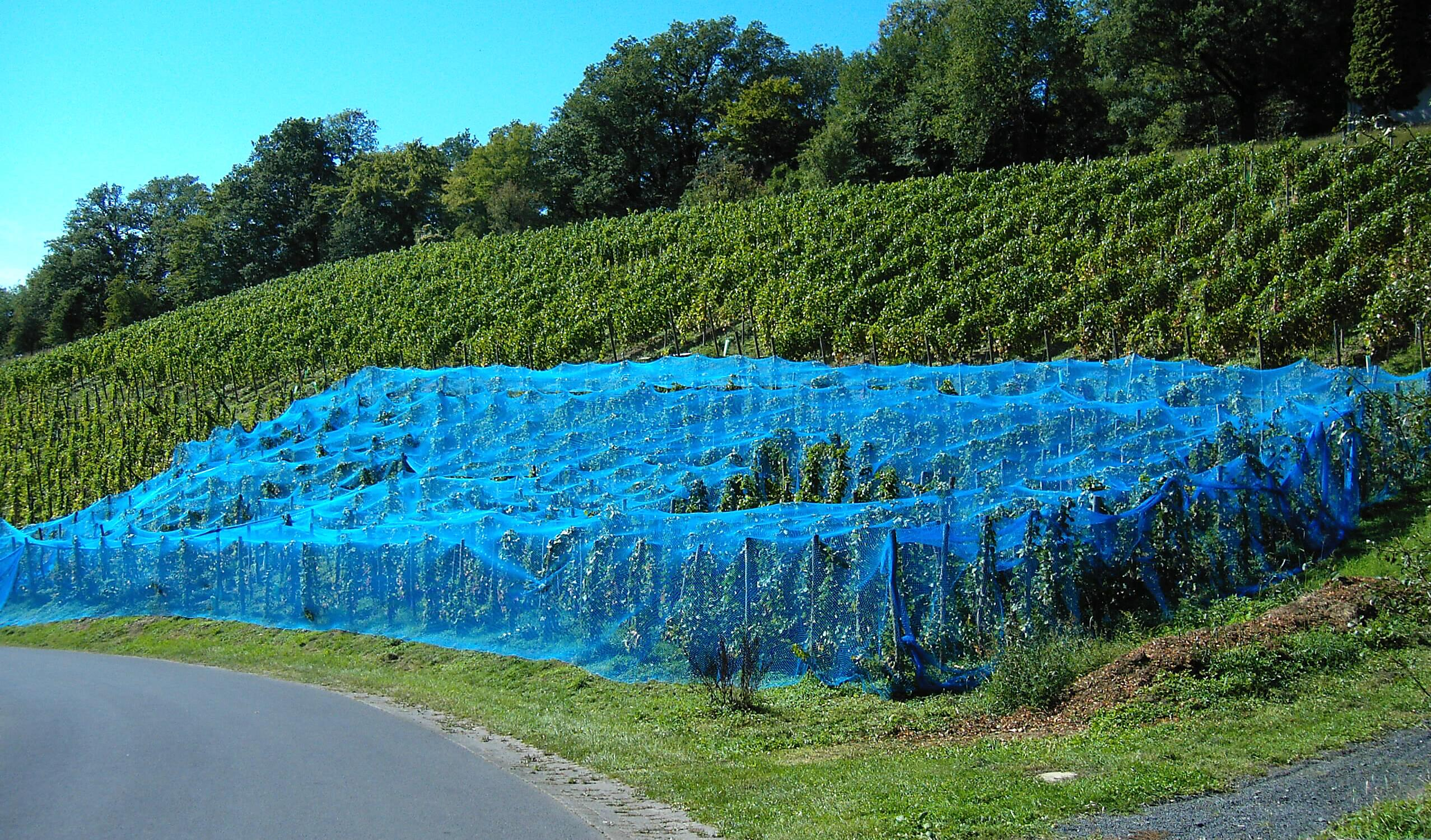 Wineyards in Königswinter-Niederdollendorf